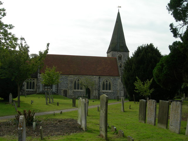 St Andrew's Church, Cobham This is an attractive old church in Cobham, here is a link to their website